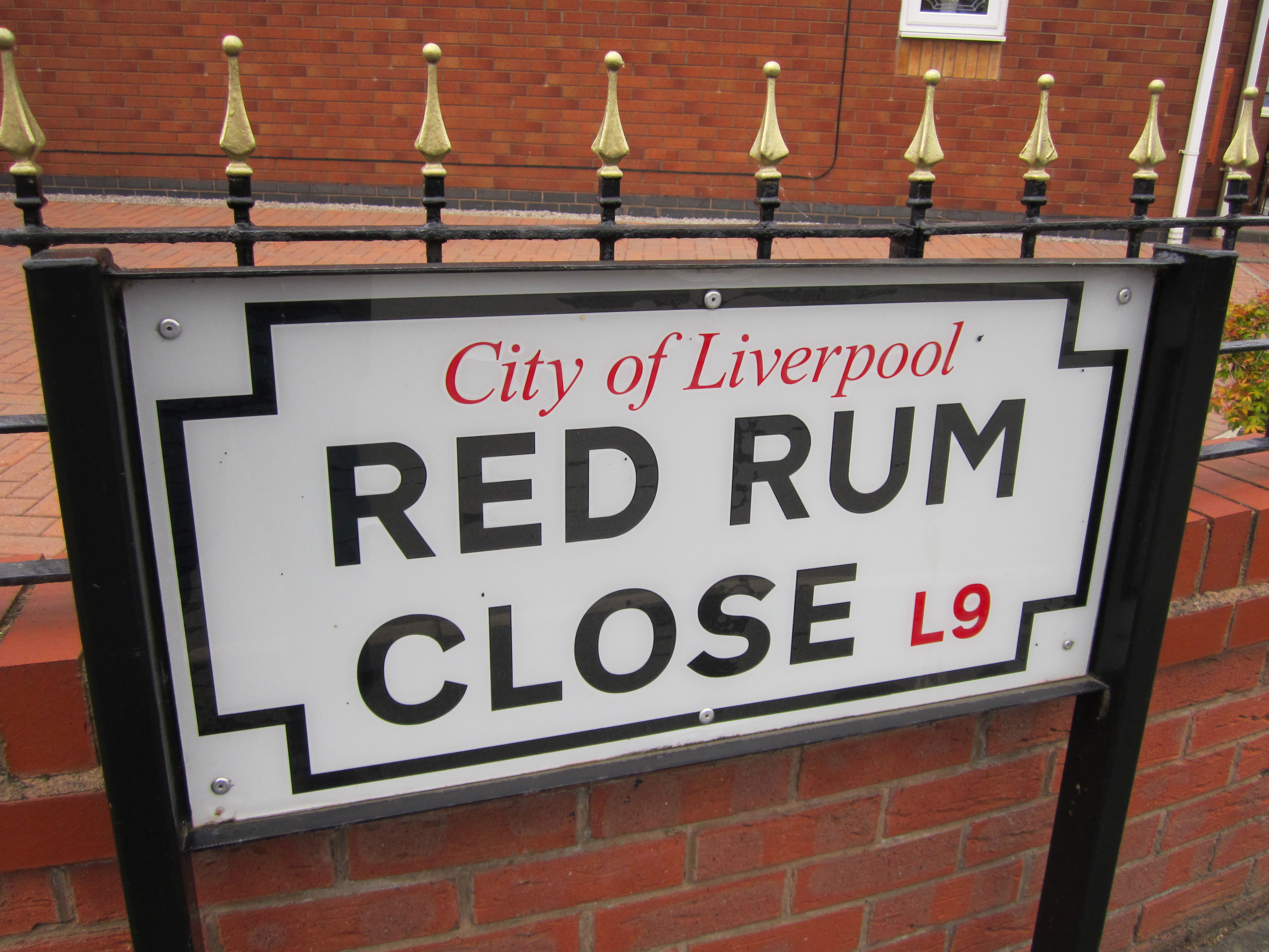 Red Rum Close, Liverpool, England.